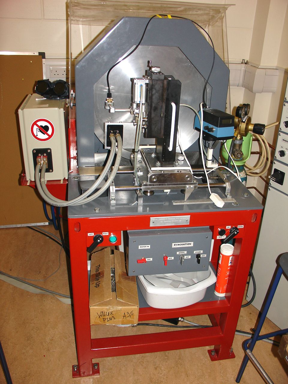 A system for production of amorphous microwires in Wolfson Centre for Magnetics.